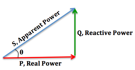 As the power factor decreases, the ratio of real power to apparent power also decreases, as the angle θ increases and reactive power increases.